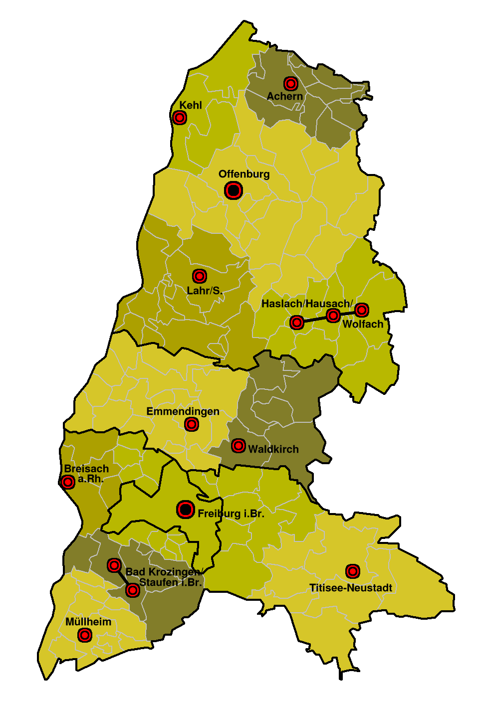 Maps of planning regions (Mittelbereiche) in the region Südlicher Oberrhein, Baden-Württemberg, Germany